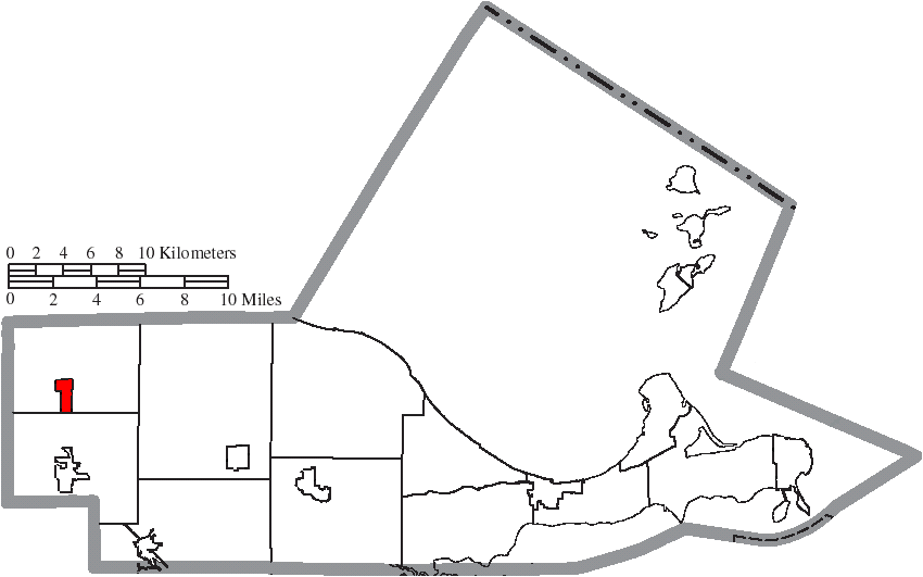 Map of the municipal and township boundaries of Ottawa County, Ohio, United States, as of the 2000 census, with the location of the village of Clay Center highlighted. Township borders are shown only in unincorporated areas in order to differentiate incorporated and unincorporated areas more clearly.